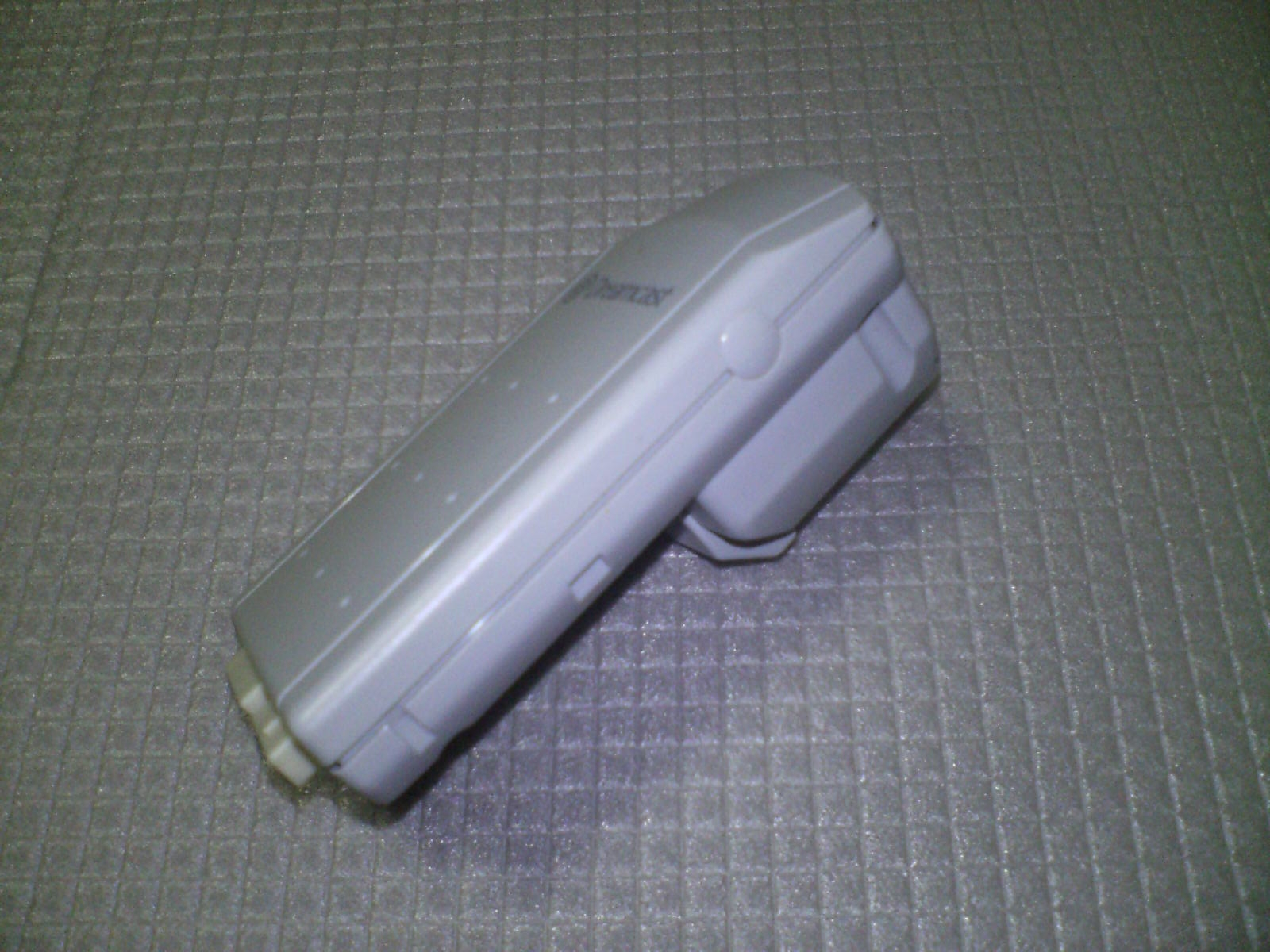 Vibration Pak for Dreamcast